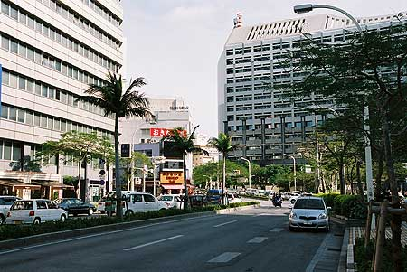 Okinawa Kencho-mae Intersection